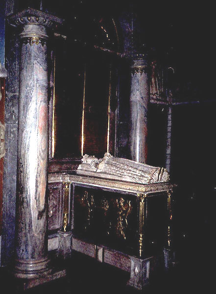 Monument to Queen Catherine of Sweden (née Jagellonica of Poland) over the crypt of her family grave (King John III’s) at Upsala CathedralPlace: Upsala, Sweden